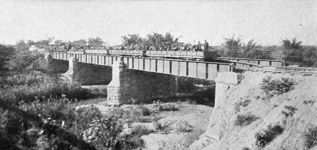 Original Caption: The railway Bridge across the Umbilo River south of Congella Railway Station.